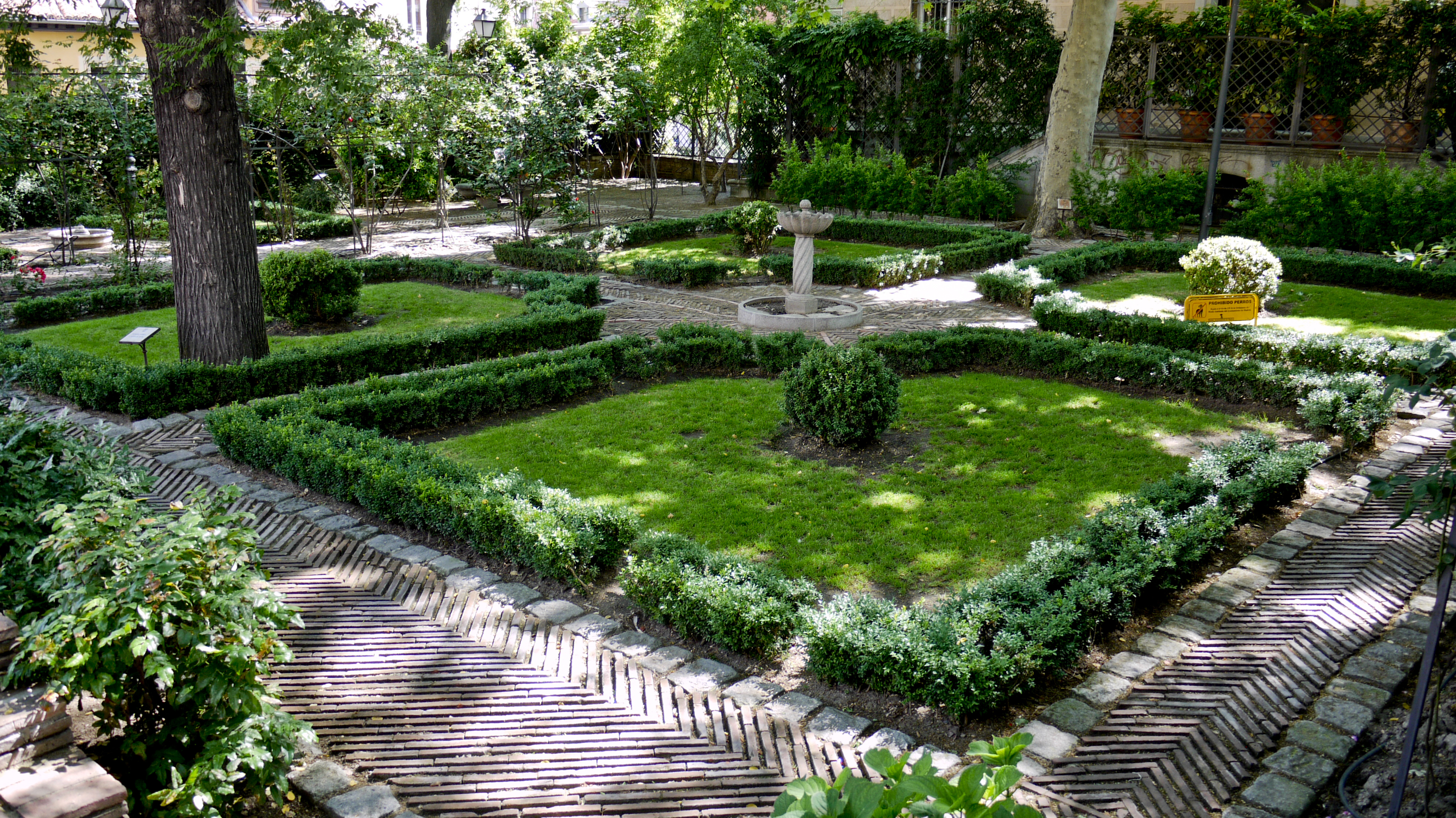 El Jardín del Príncipe de Anglona, Barrio La Latina, Madrid, Spain.